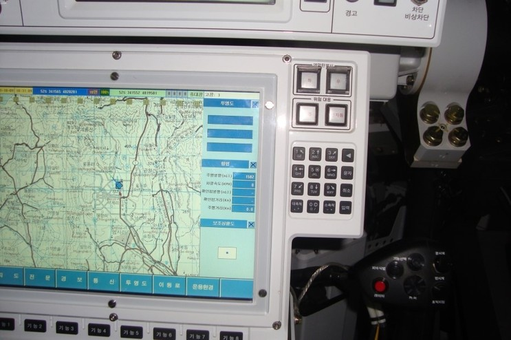 South Korean indigenous infantry fighting vehicle K21 look around (circa 2011)